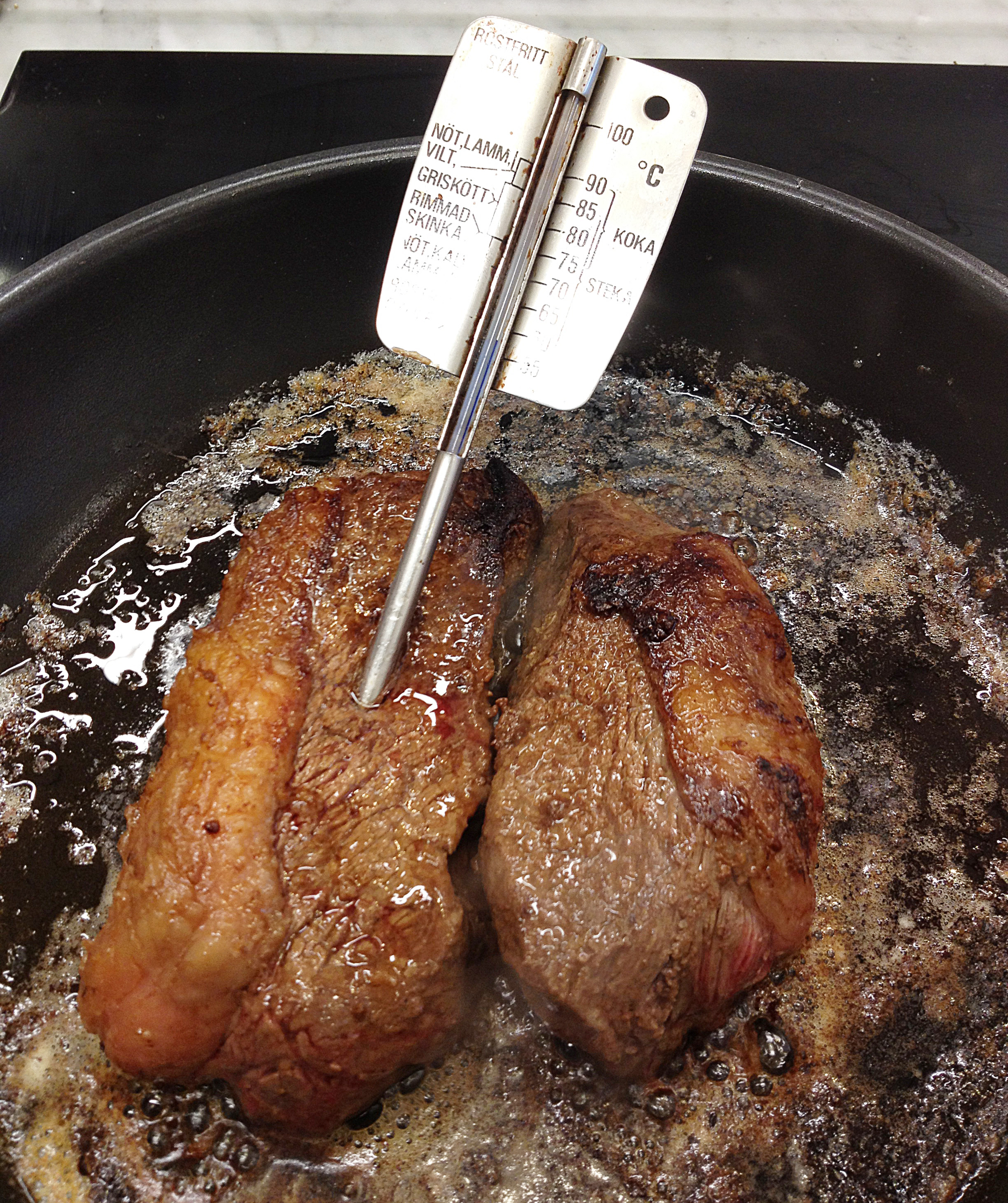 Picanha